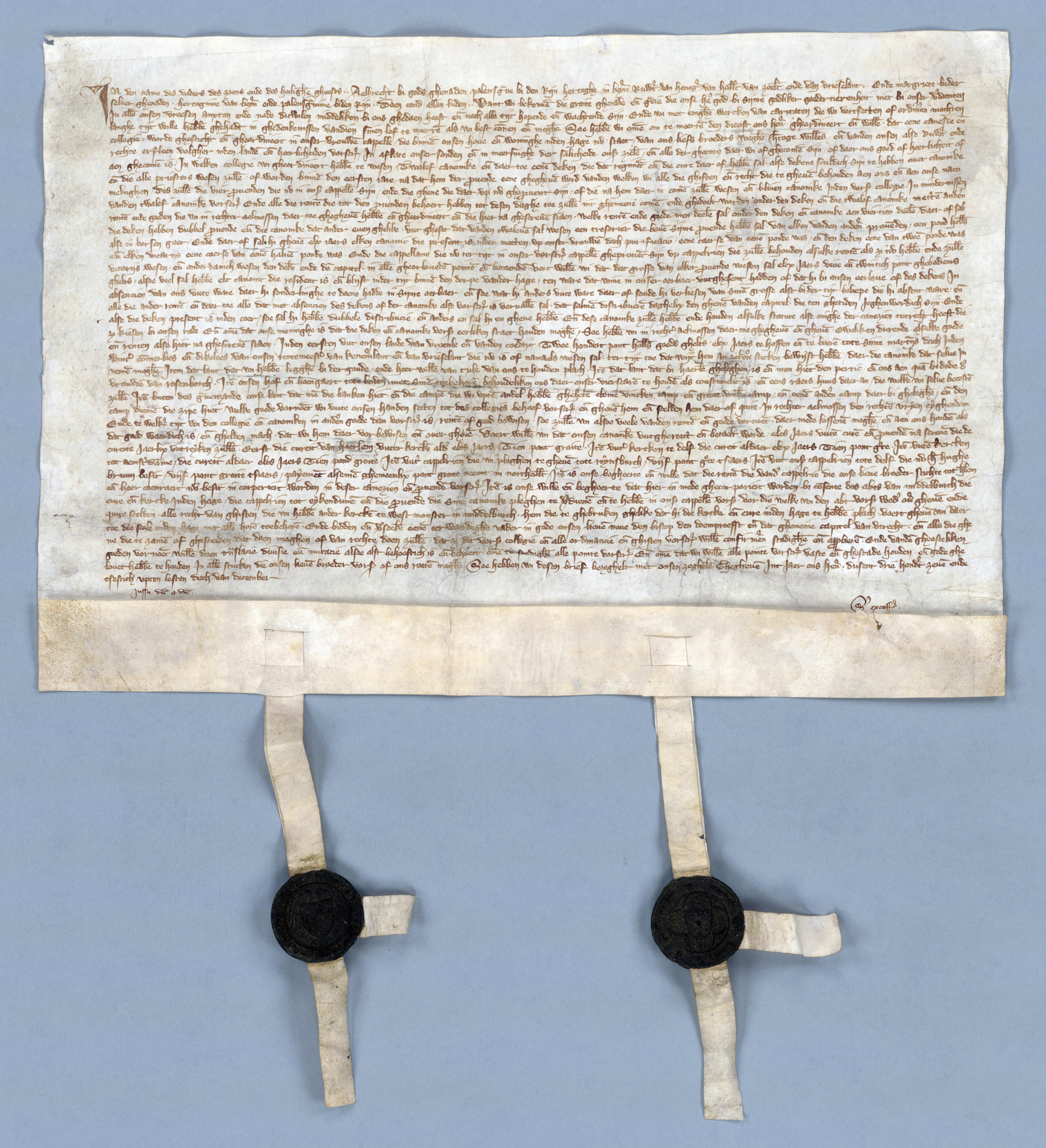 Founding of a religious chapter in the court chapel in The Hague, by Albrecht I Duke of Bavaria, Count of Holland and his wife, Margareth of Brieg (from the House of Piast)